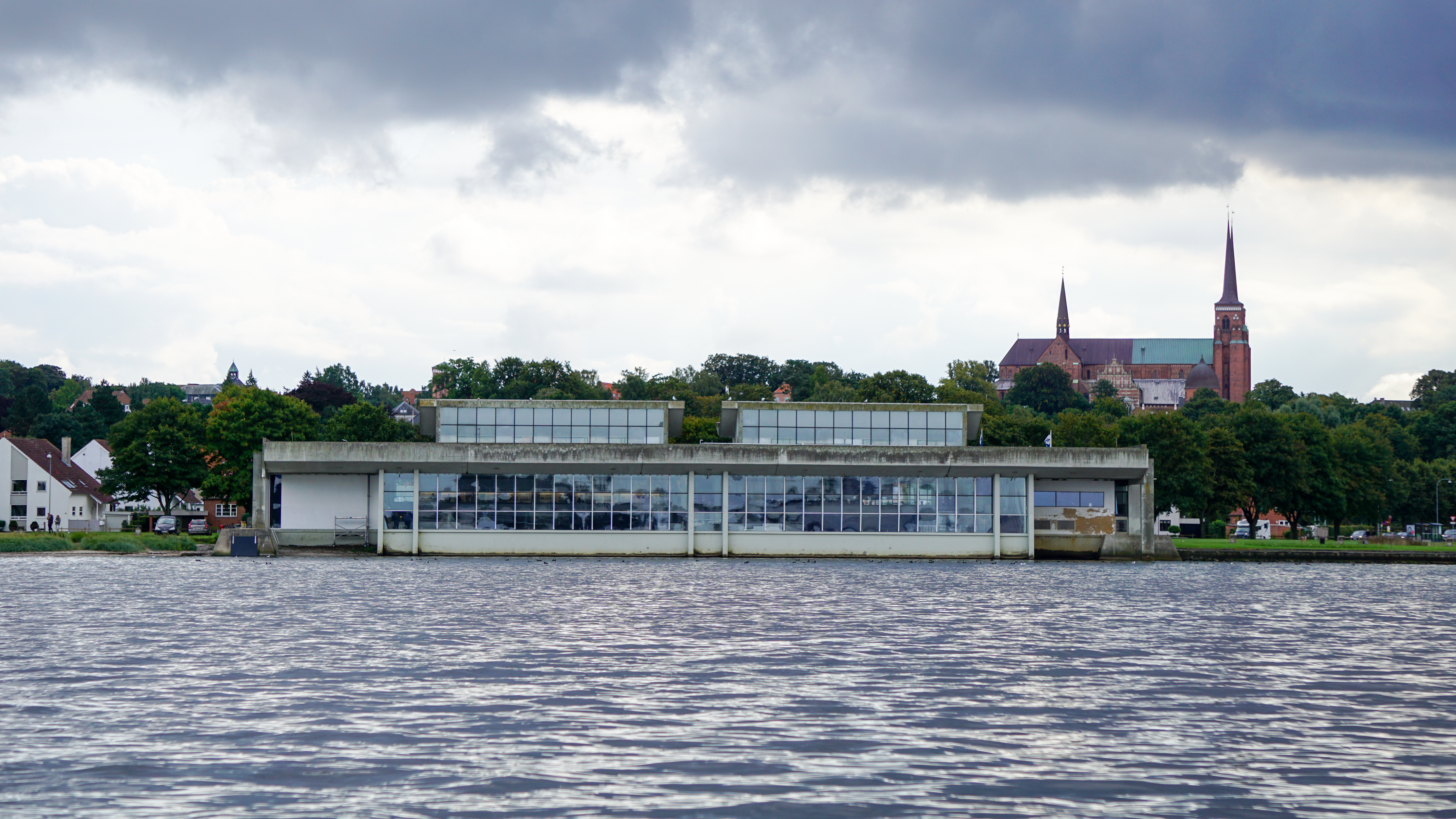 View of Viking Ship Museum from Roskilde Fjord in Roskilde, Denmark.